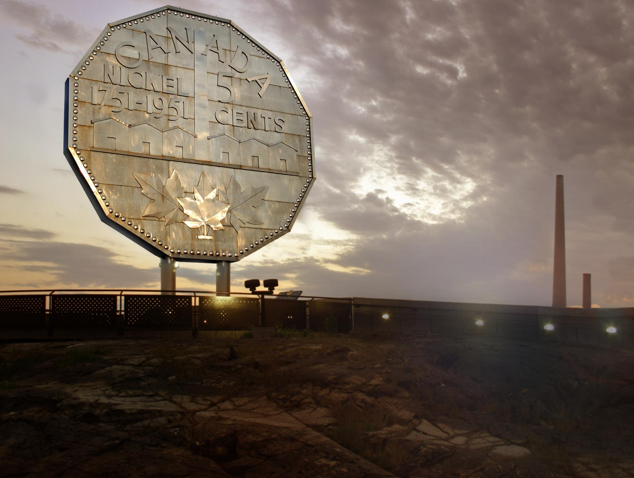 Big Nickel - Dynamic Earth